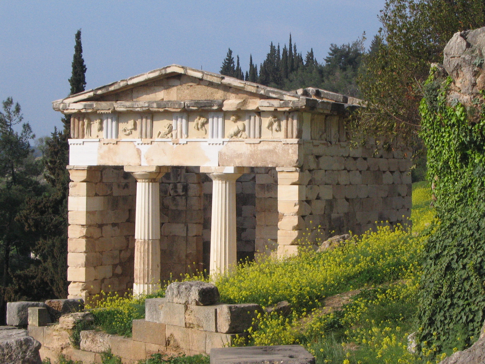 Athenean Treasury at Delphi, Doric distyle (two column) building of 6th century BCE